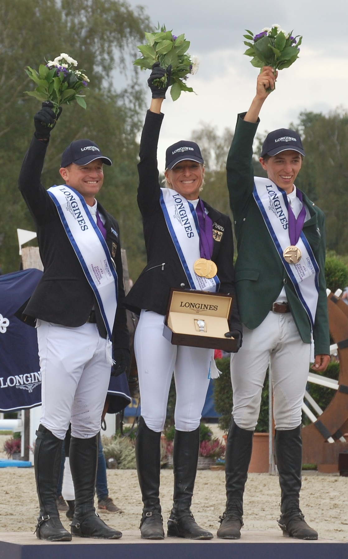 2019 European Eventing Championship medal ceremonies - individual: Michael Jung, Ingrid Klimke and Cathal Daniels (from left to right)